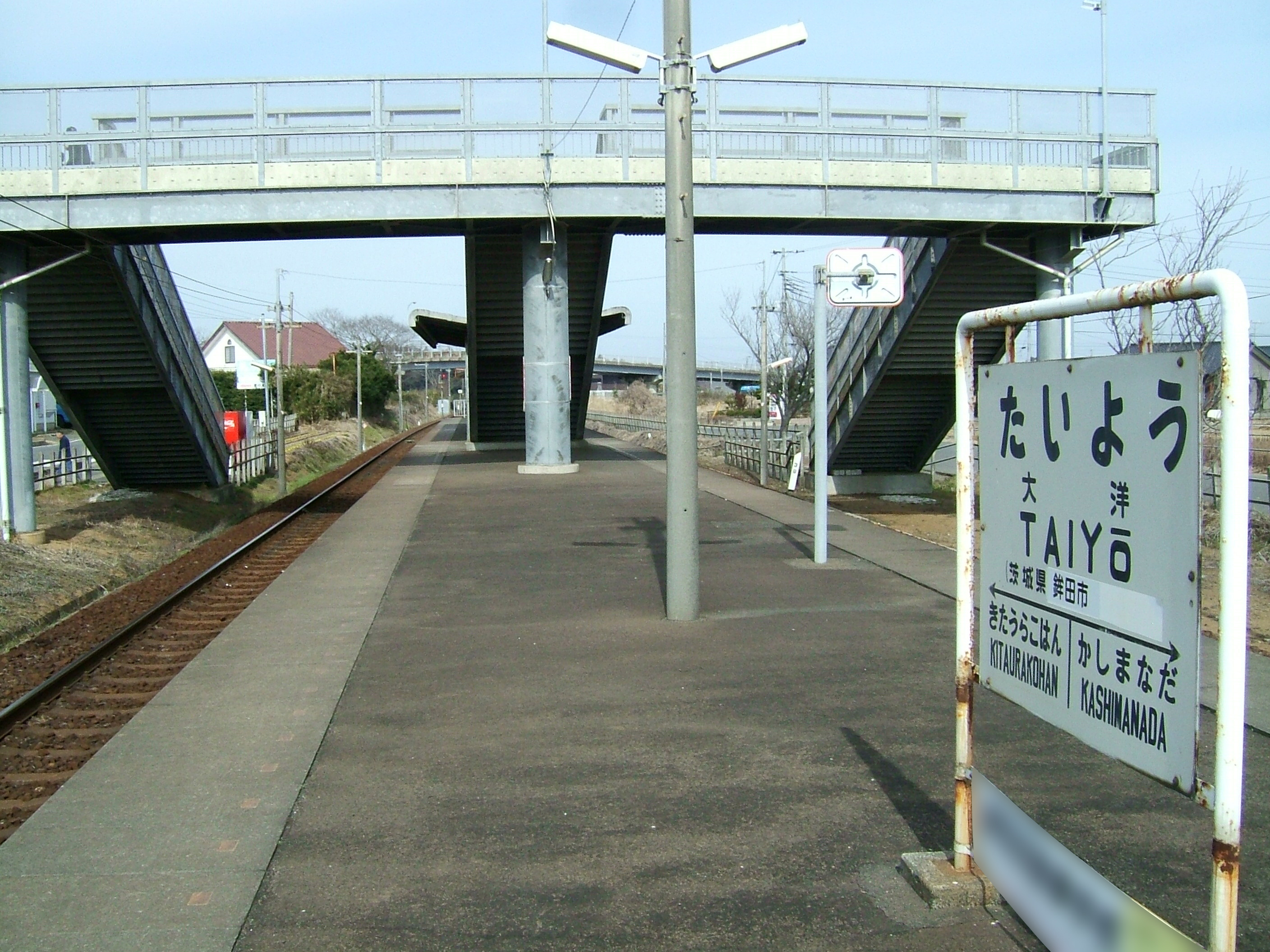 Taiyo Station platform (Kashima Seaside Railway Oarai-Kashima Line)